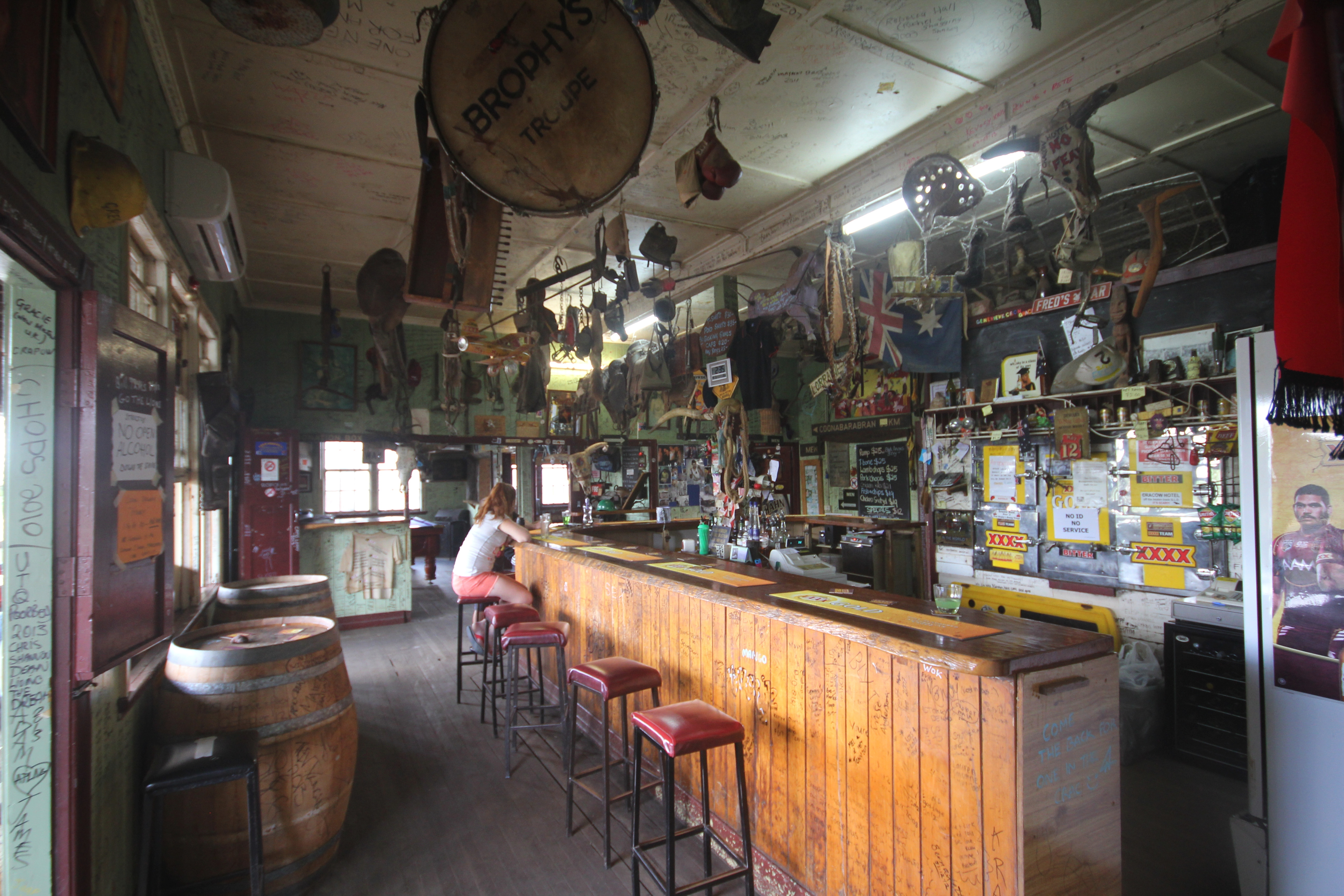 The Cracow Hotel pub's bar is famous for its decorations. Note Fred Brophy's very old drum hanging from the ceiling and the patina cod webs. The kitchen's menu is written on the blackboard on the far end of the room.